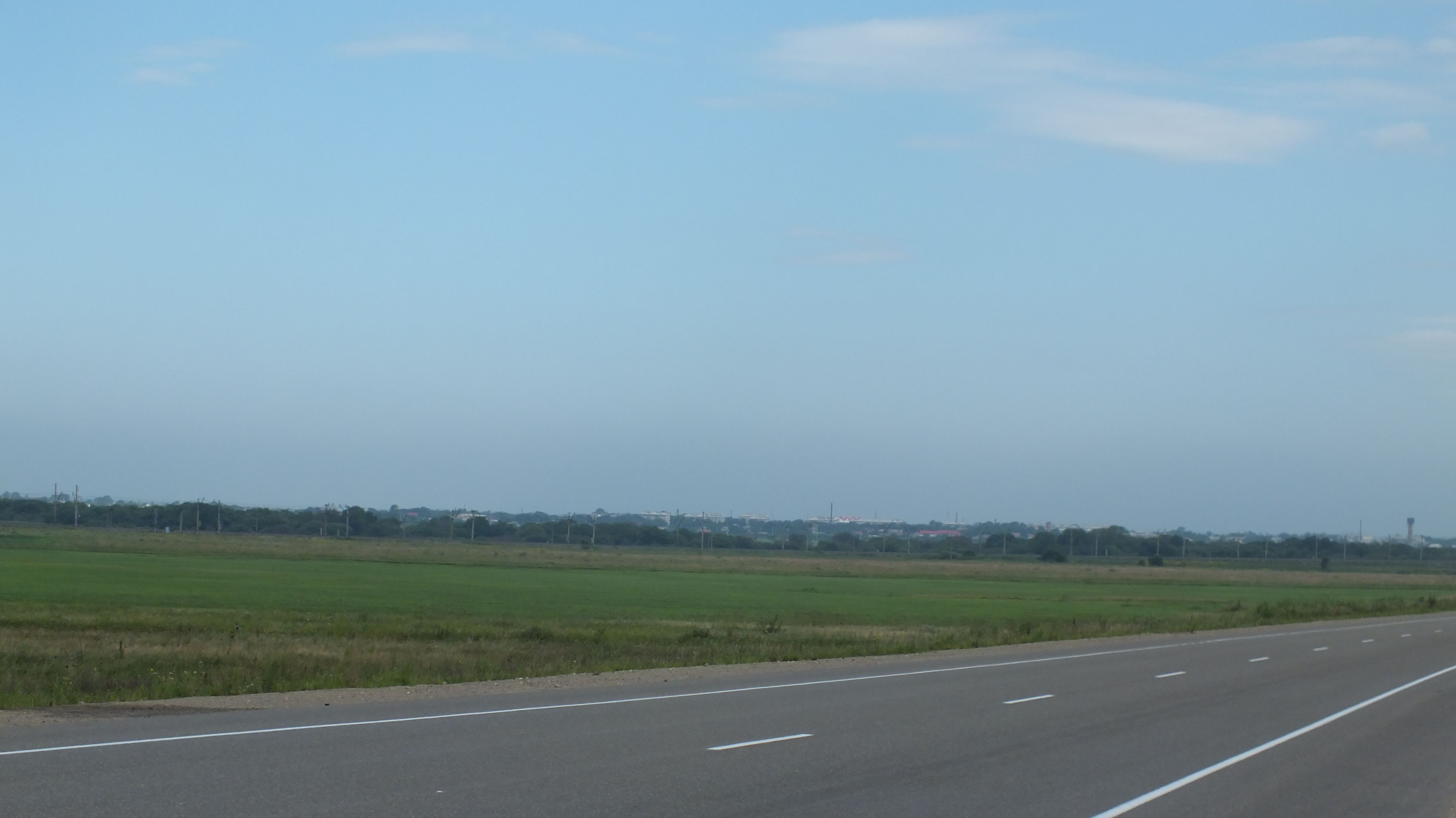 Geography of Primorsky Krai